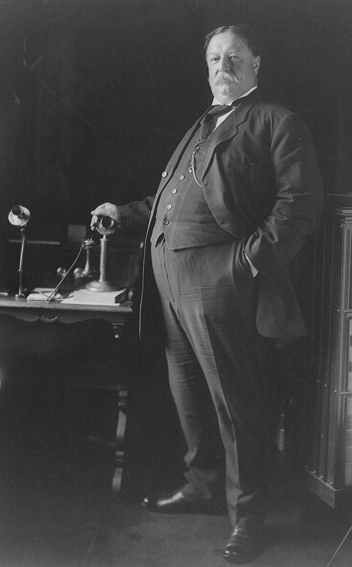 U.S. President William Howard Taft in 1908, posed standing with his hand on a telephone.